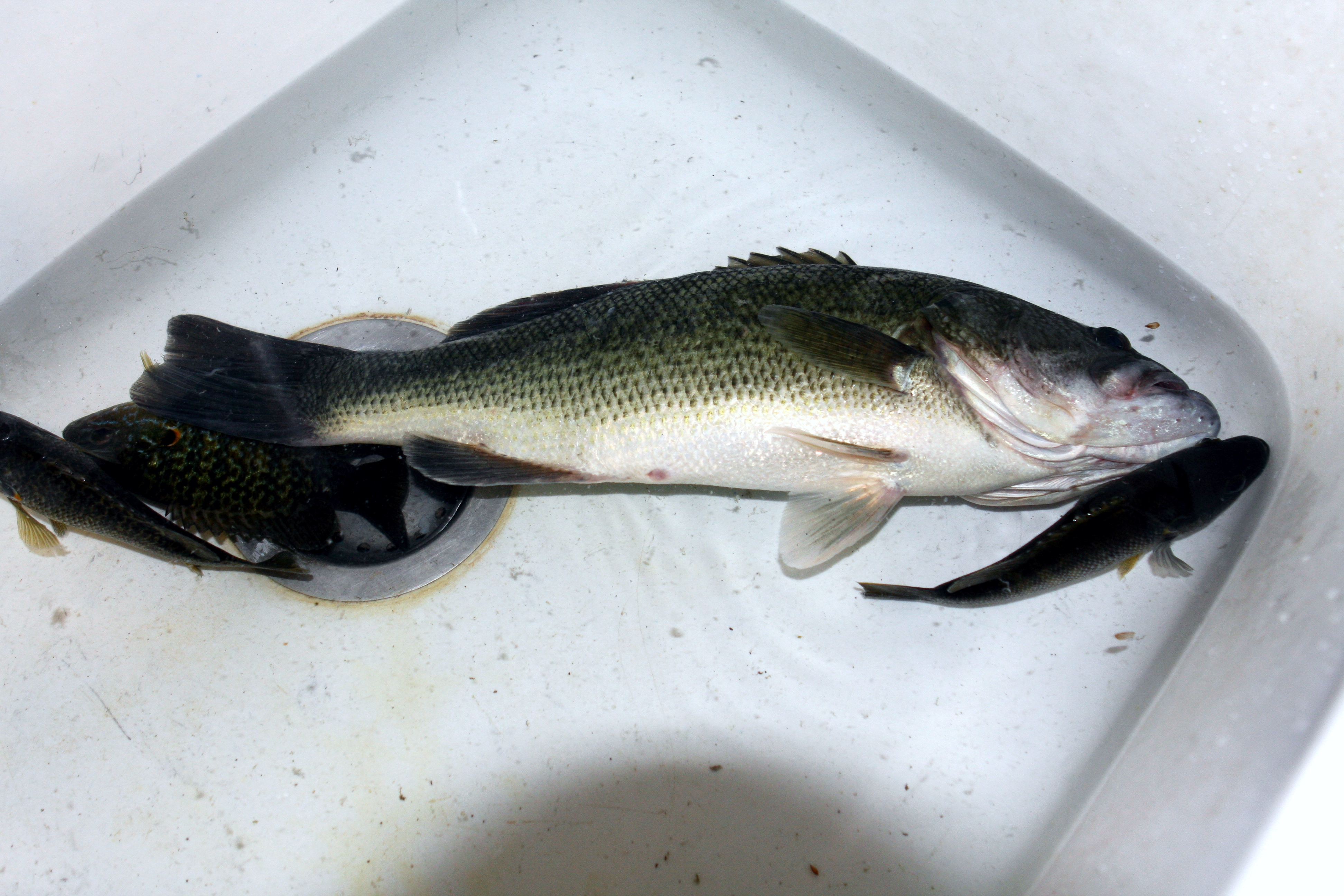 Micropterus salmoides - Large Mouth Bass with assorted Sunfish.